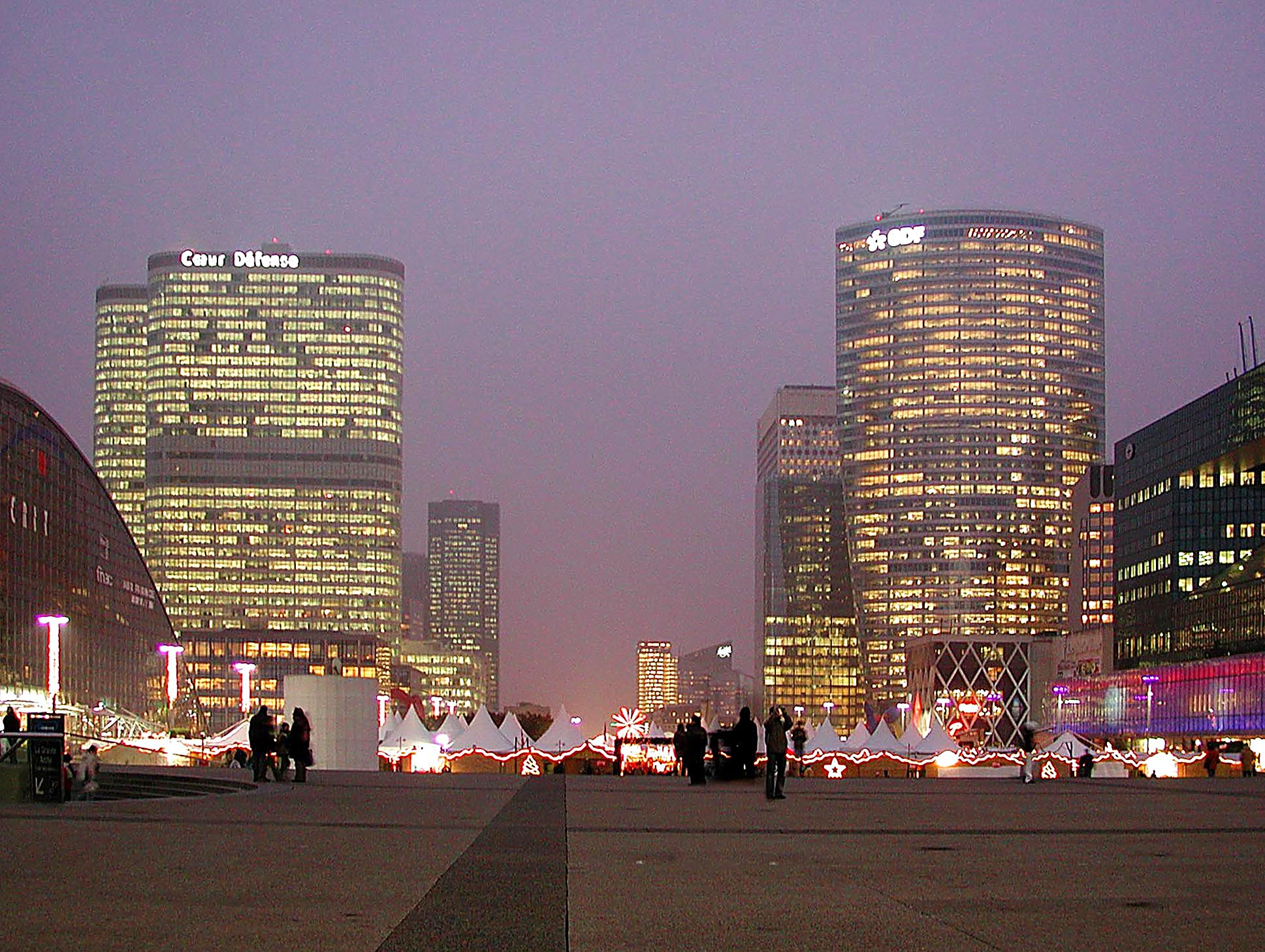 La Defense in Paris 1